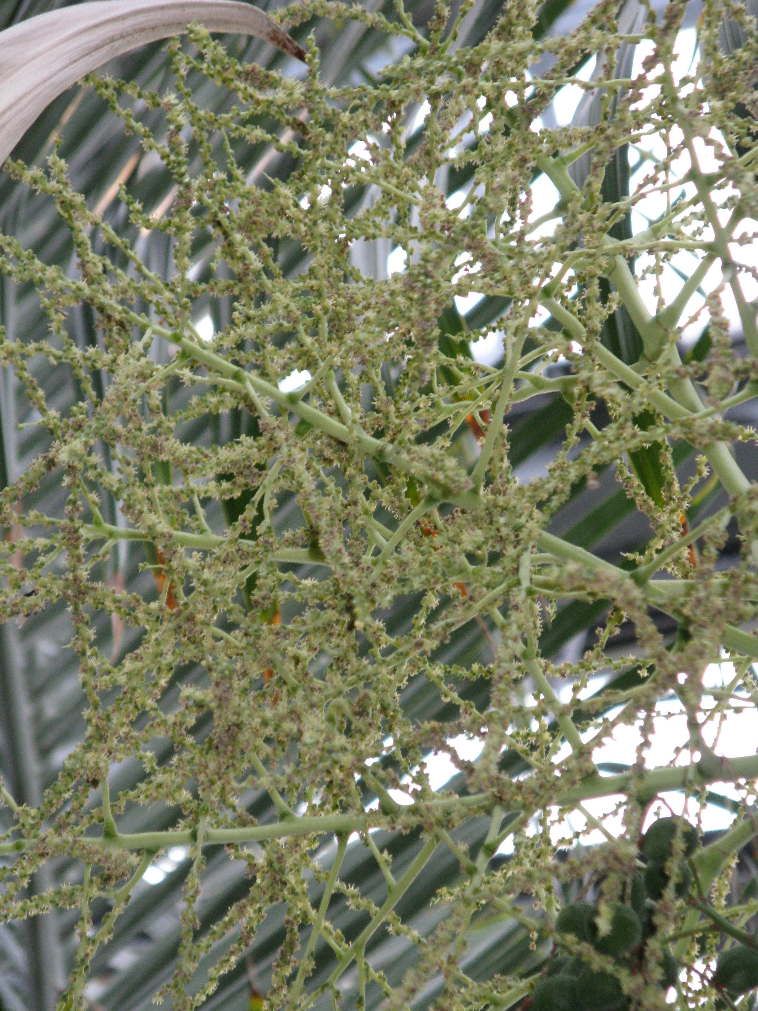 Scientific name Hyophorbe lagenicaulis